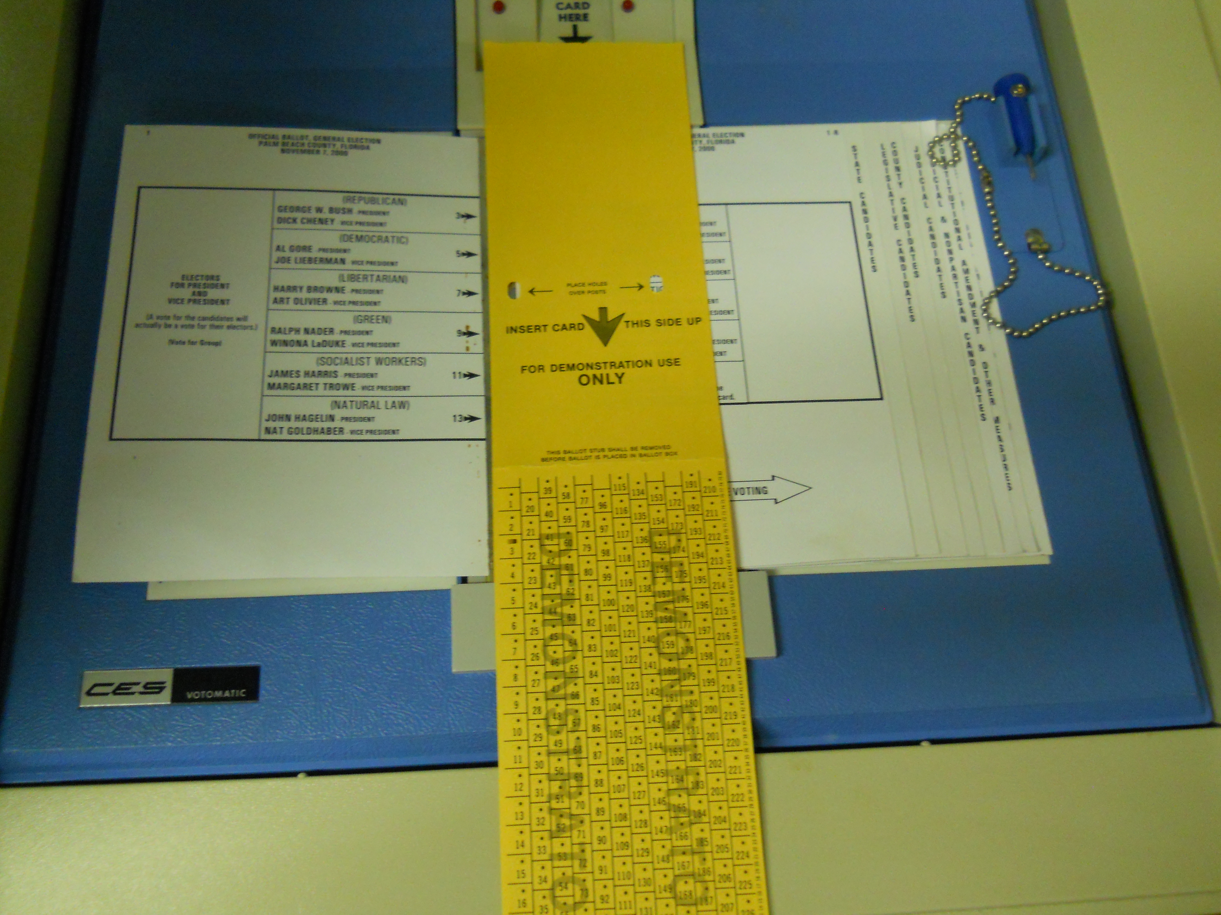 Palm Beach County Votomatic machine used in 2000 Presidential election